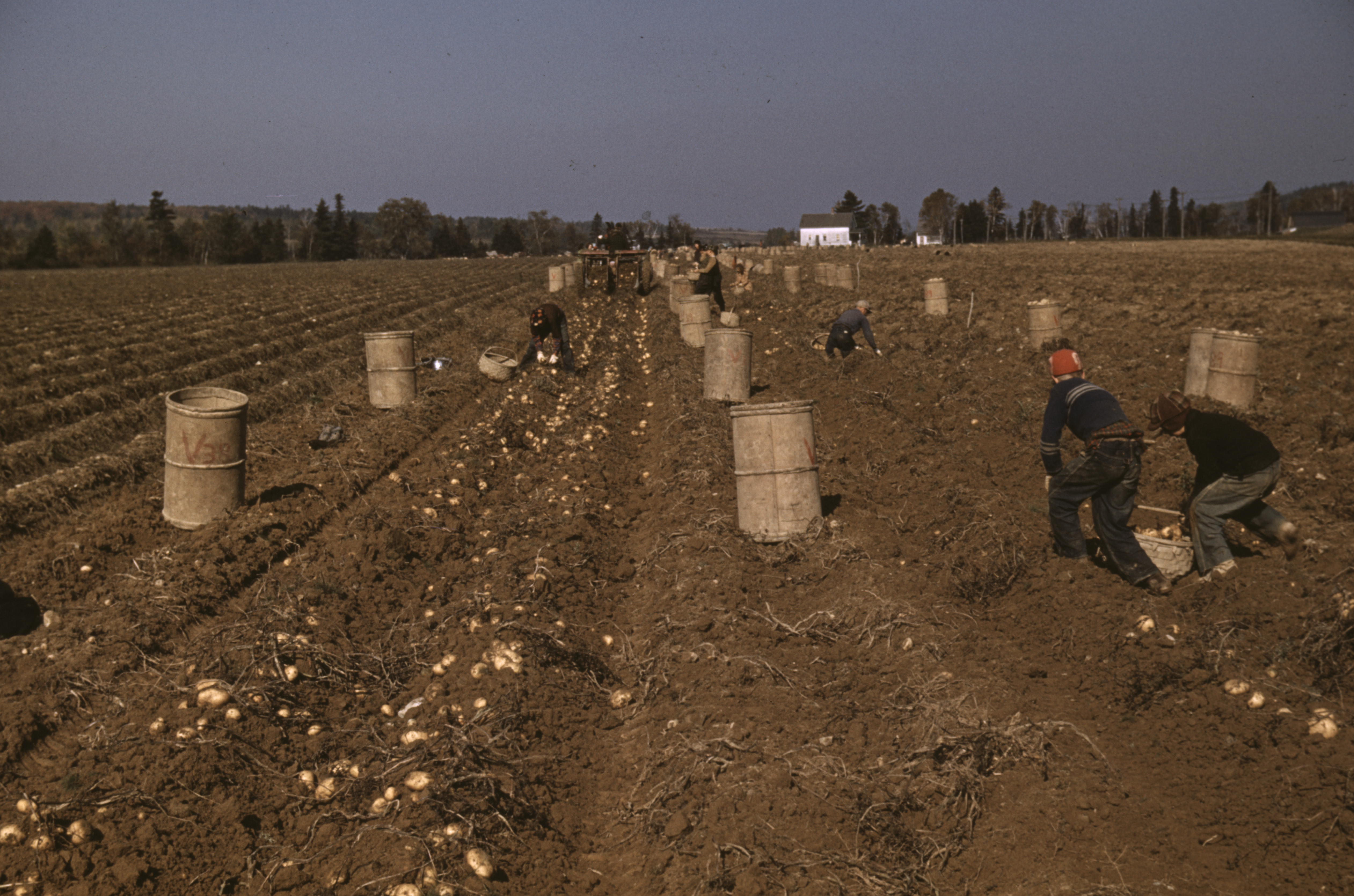 Children gathering potatoes on a large farm, vicinity of Caribou, Aroostook County, Me. Schools do not open until the potatoes are harvested